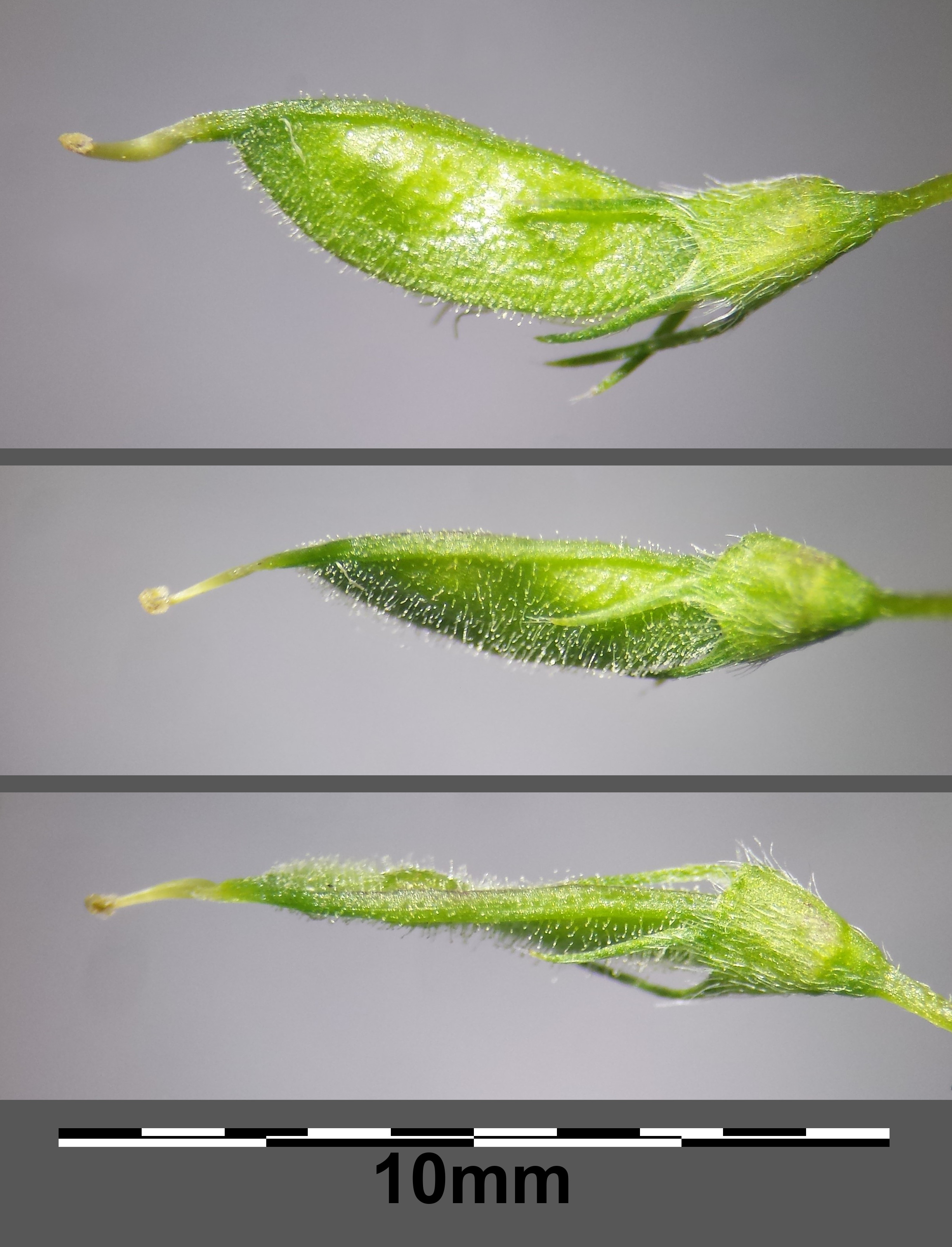 Fruit Taxonym: Medicago falcata ss Fischer et al. EfÖLS 2008 ISBN 978-3-85474-187-9 Location: Donaupark, Vienna-Donaustadt - ca. 160 m a.s.l. Habitat: meadows